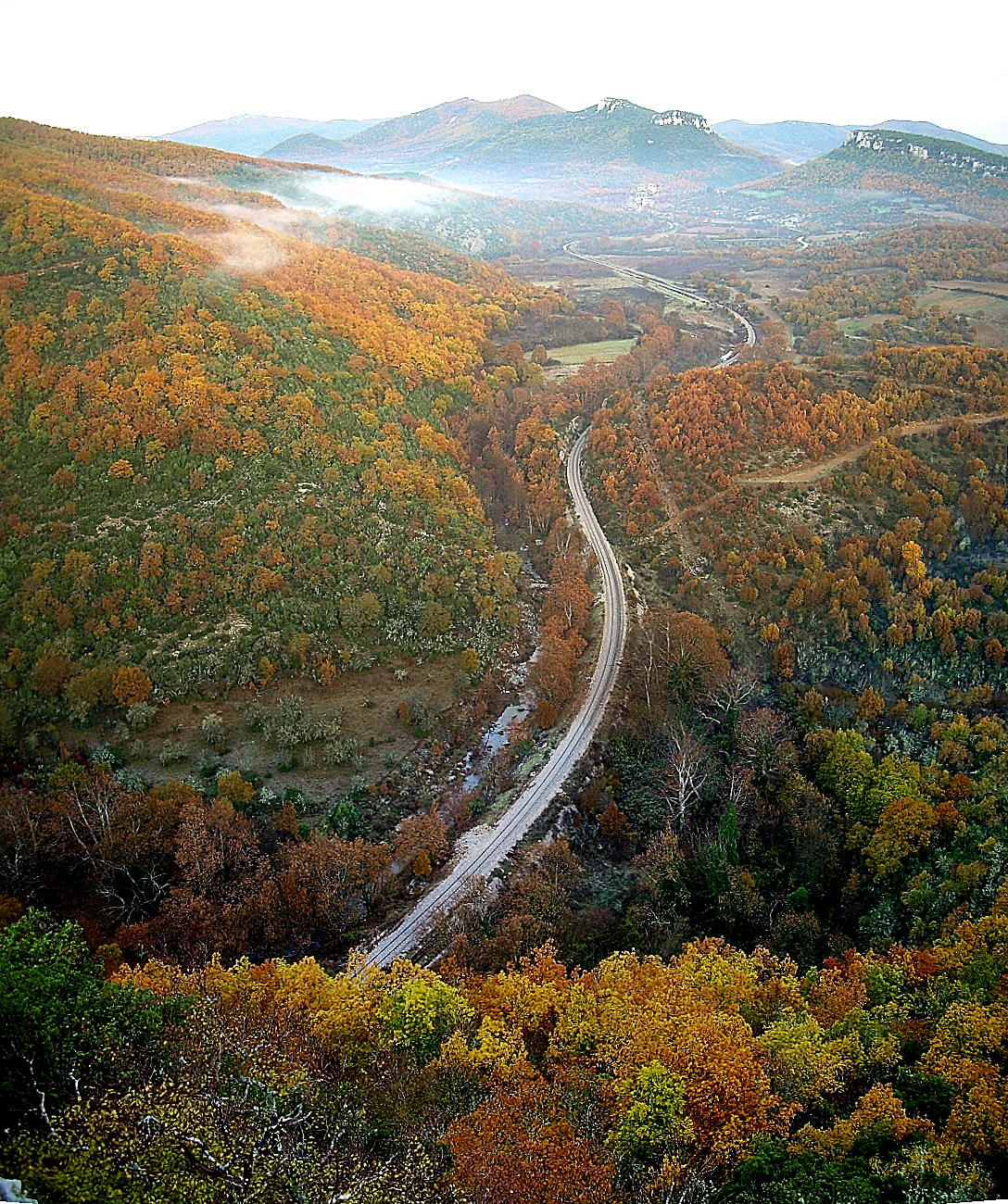 AUTUMN IN KIRKI GREECE